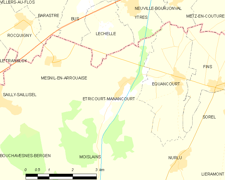 Map of French municipality Étricourt-Manancourt